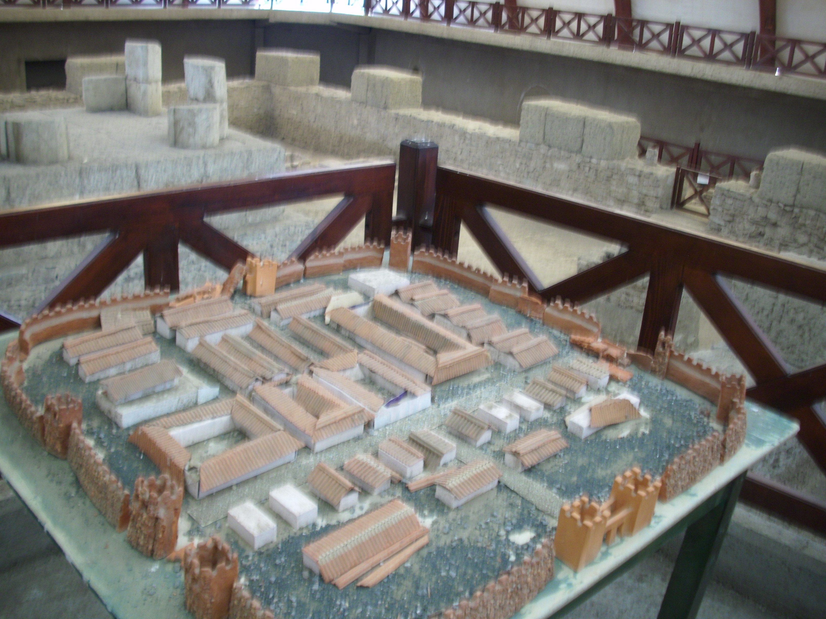 Viminacium